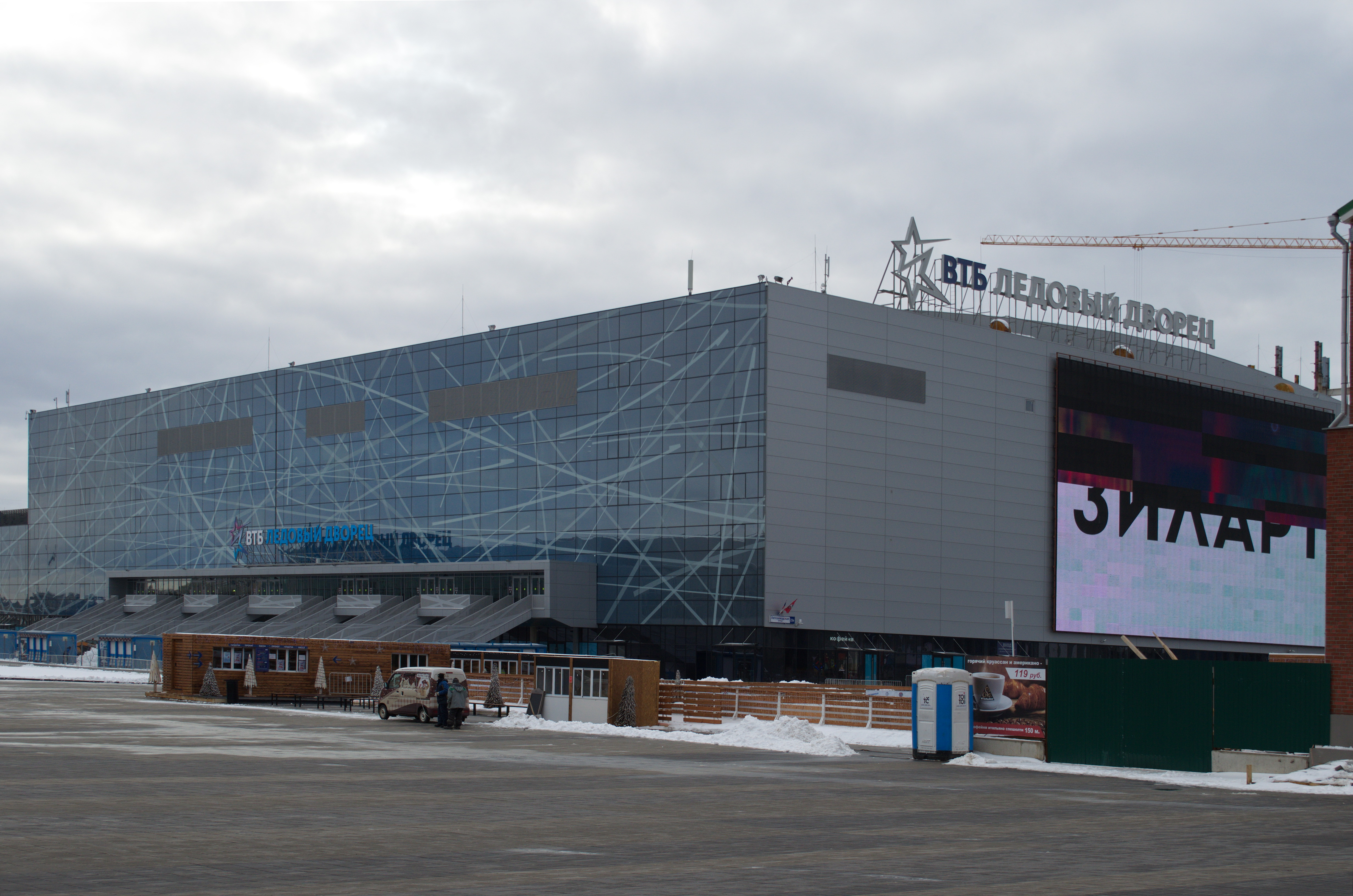 Exterior of VTB Ice Palace.